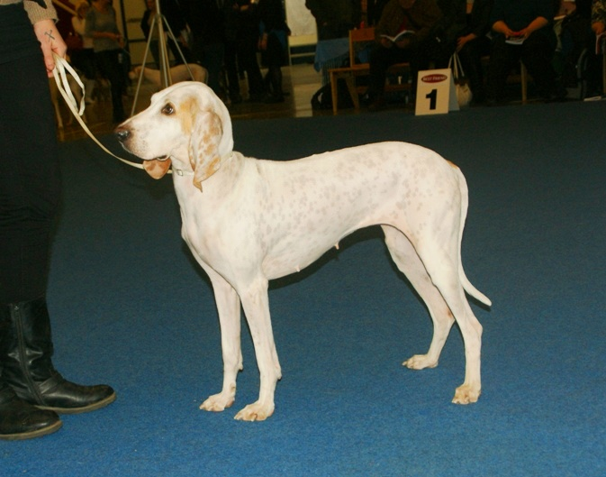 Porcelaine female.